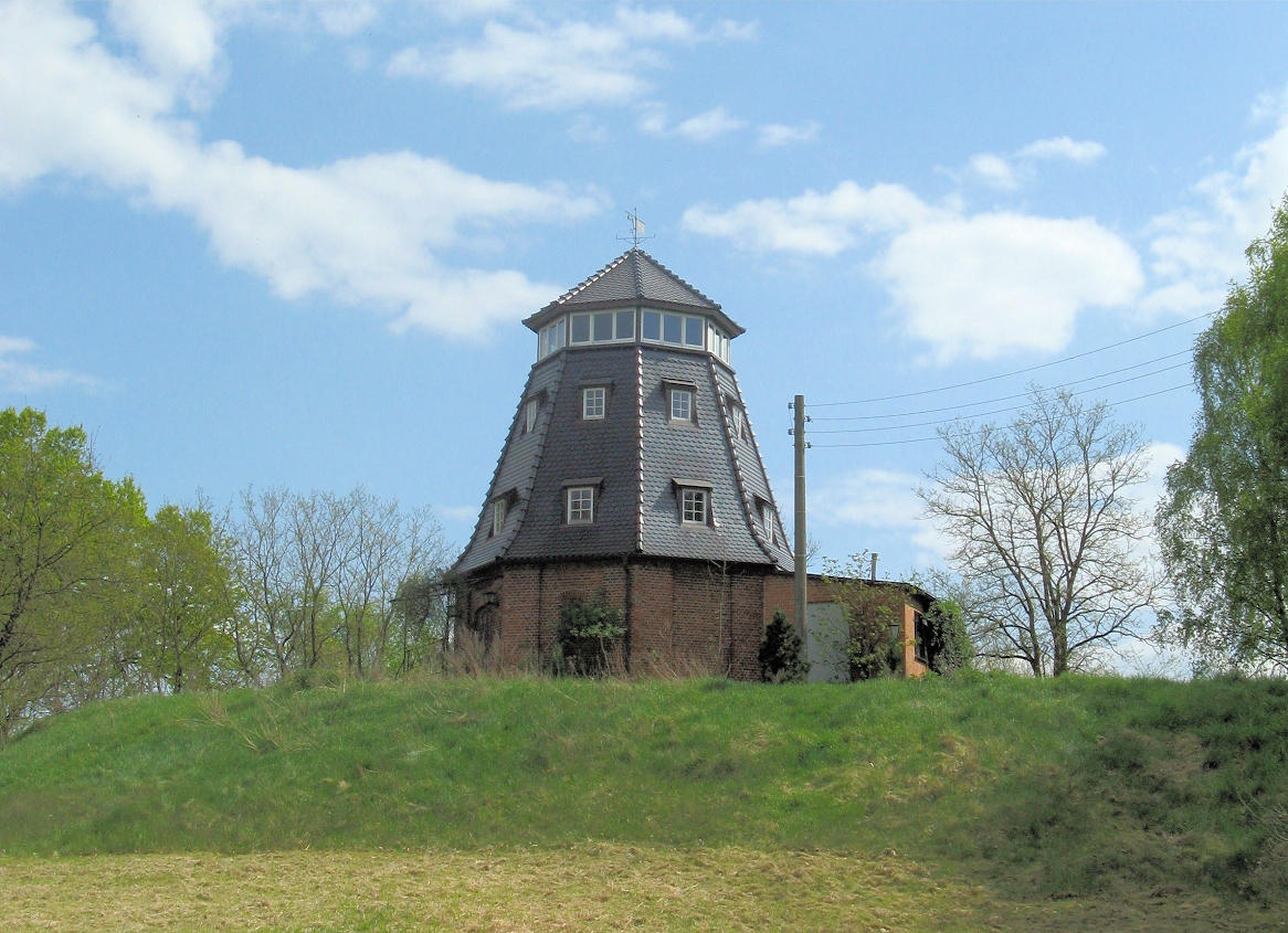 Former windmill in Polz (Dömitz), Mecklenburg-Vorpommern, Germany